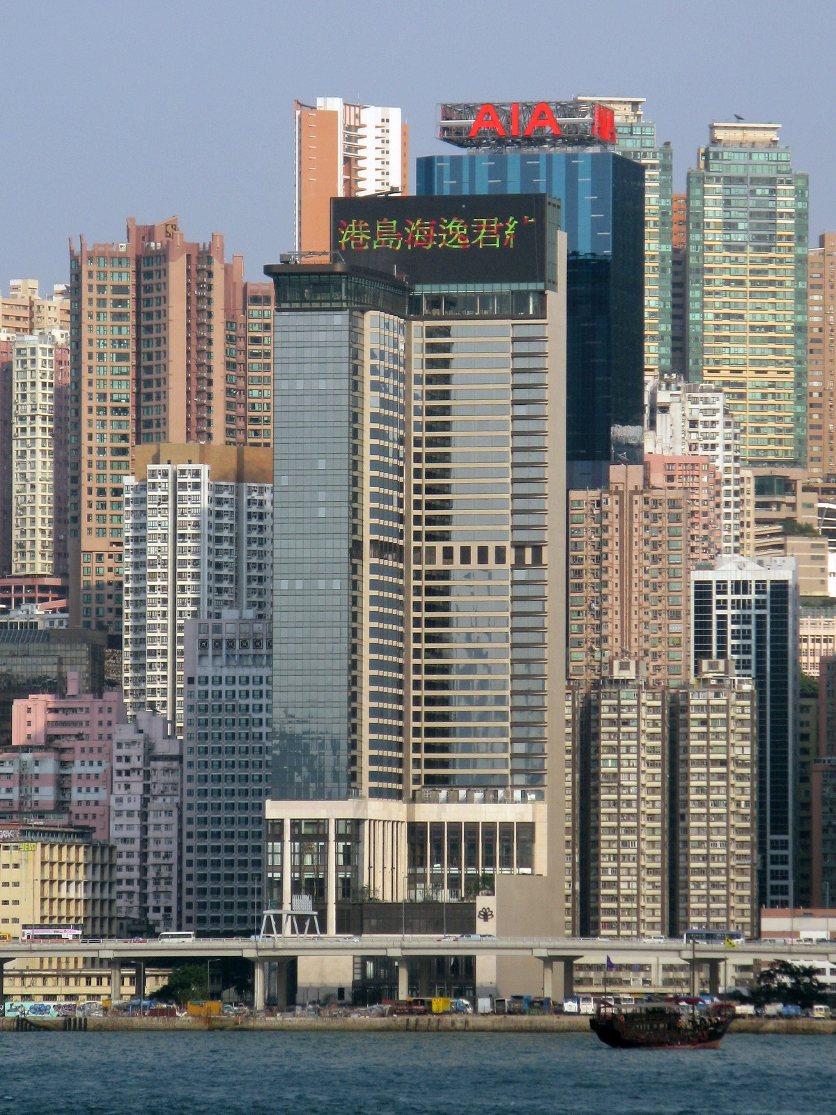 Harbour Grand Hong Kong